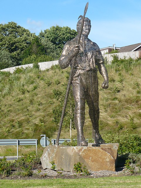 Chartist man at Blackwood Look carefully and you will see that this is a see-through man.